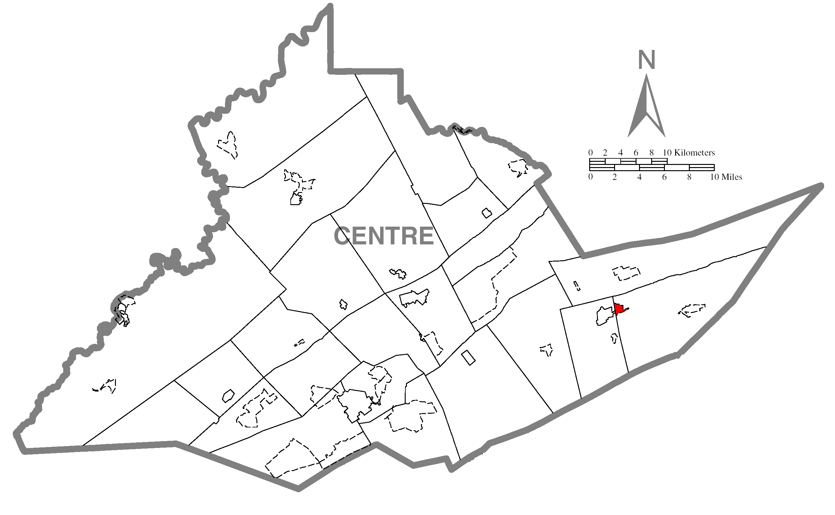 A map of Centre County showing Aaronsburg, Pennsylvania (alternate) highlighted on the map.